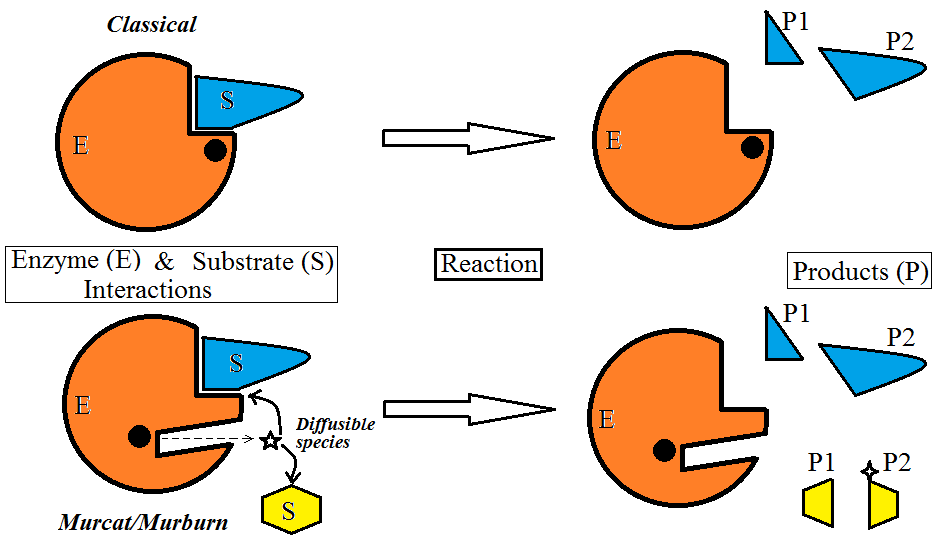 The schematic represents a comparison between classical enzyme mechanism seeking affinity binding at the active site and murburn catalysis mediated via diffusible species